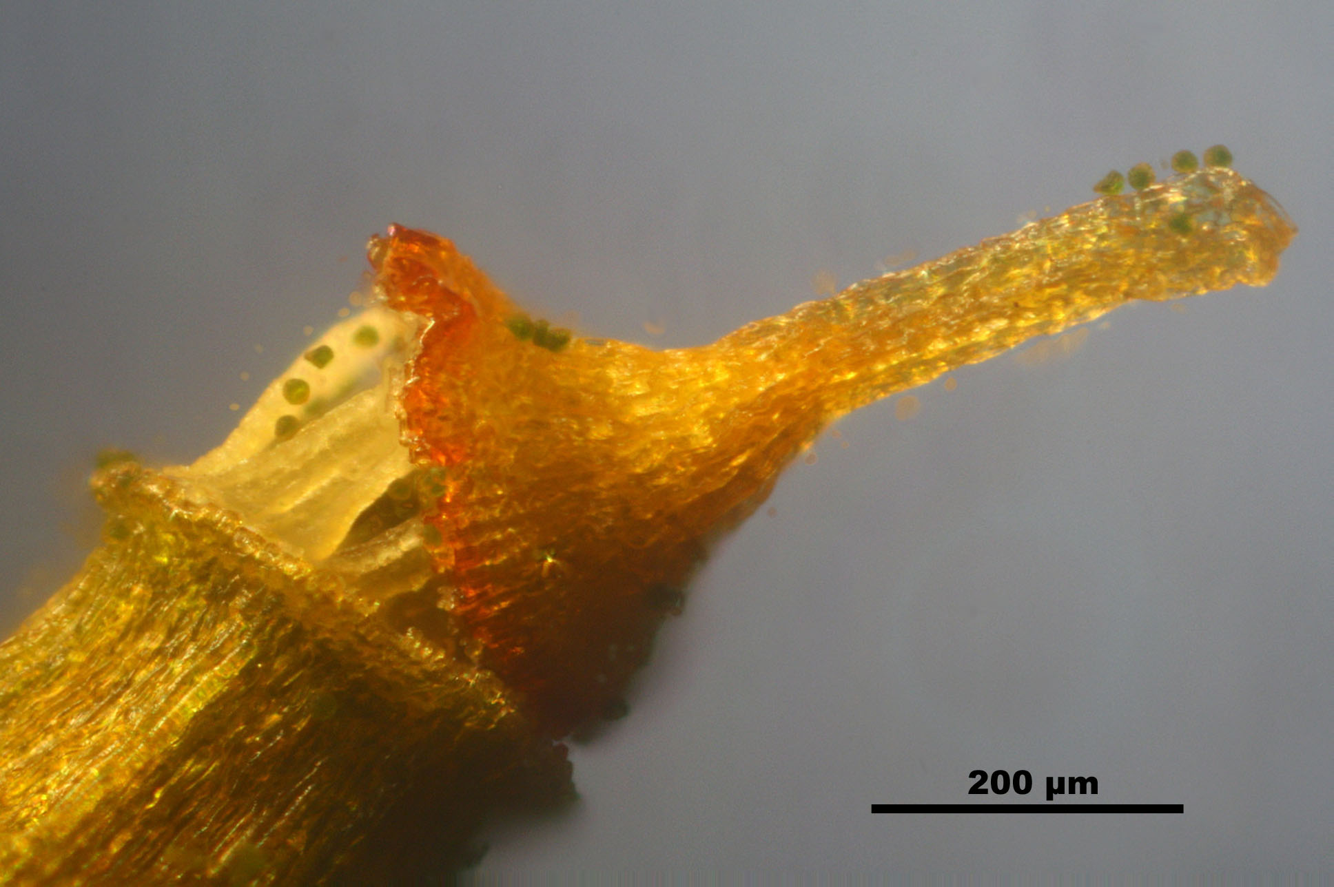 Orthotrichum speciosum